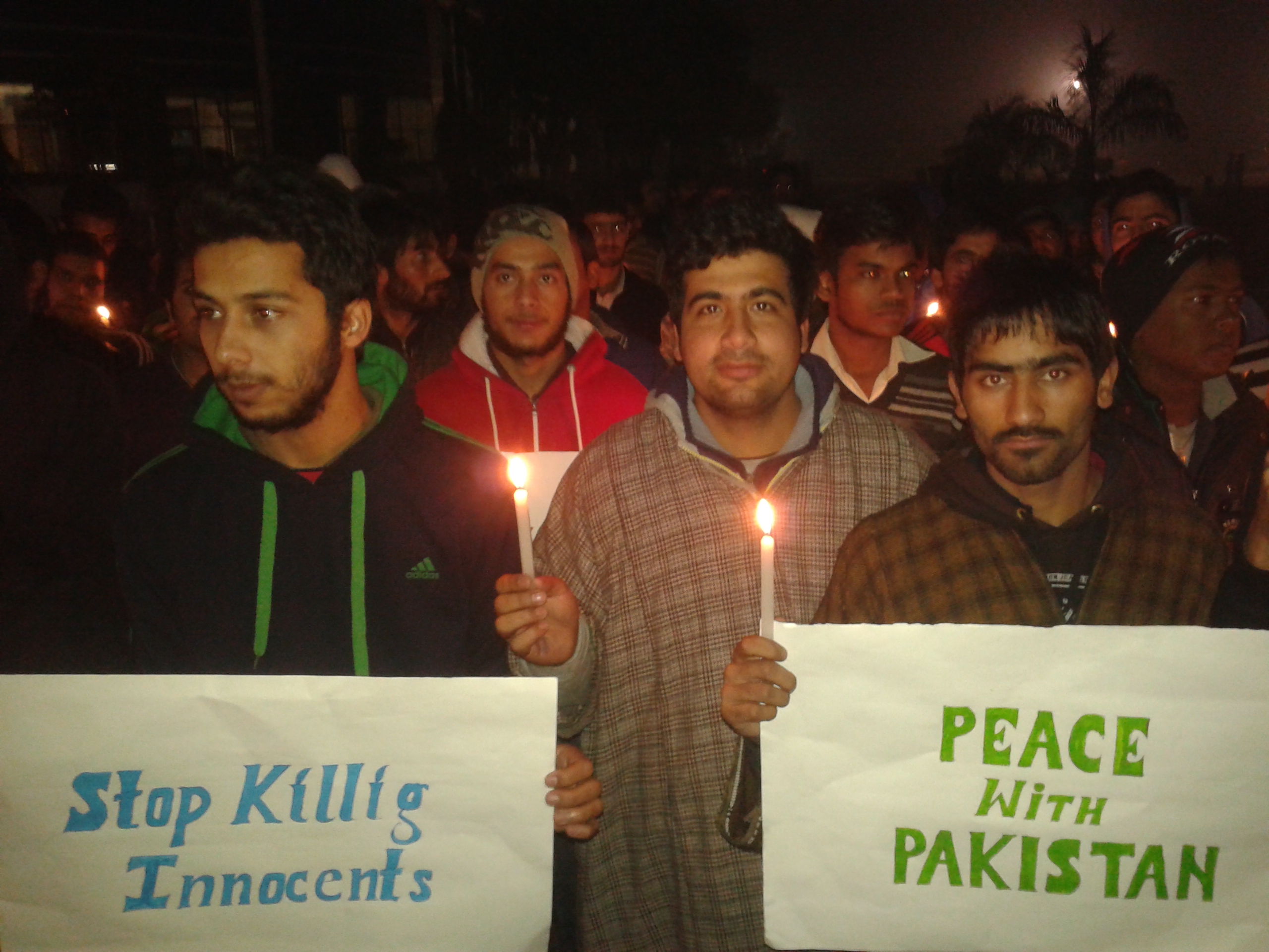 candle march against Peshwar attacks in Kashmir, India3